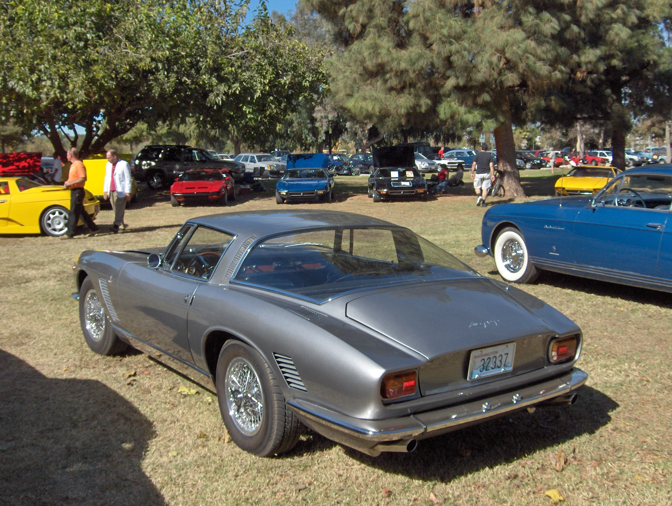 Own photo - public location. Best of France and Italy Car Show - Van Nuys, CA